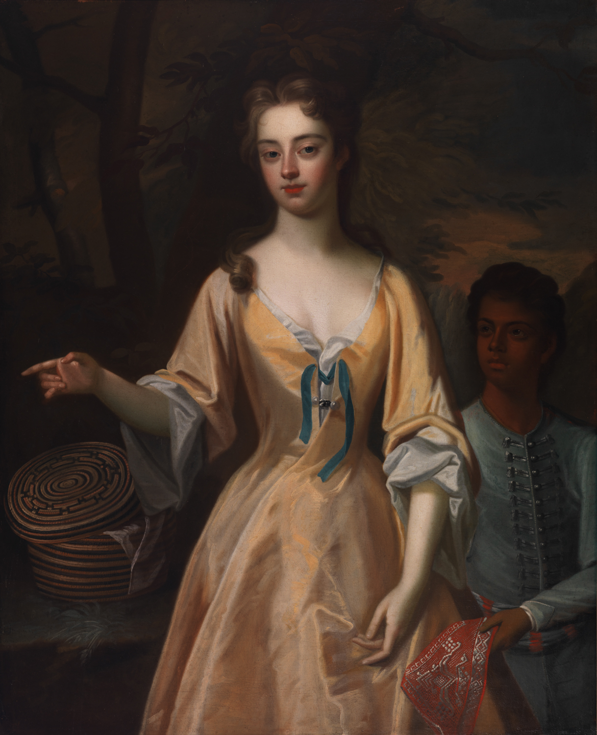 Dimensions: 50 x 40 in. (127 x 101.6 cm.)